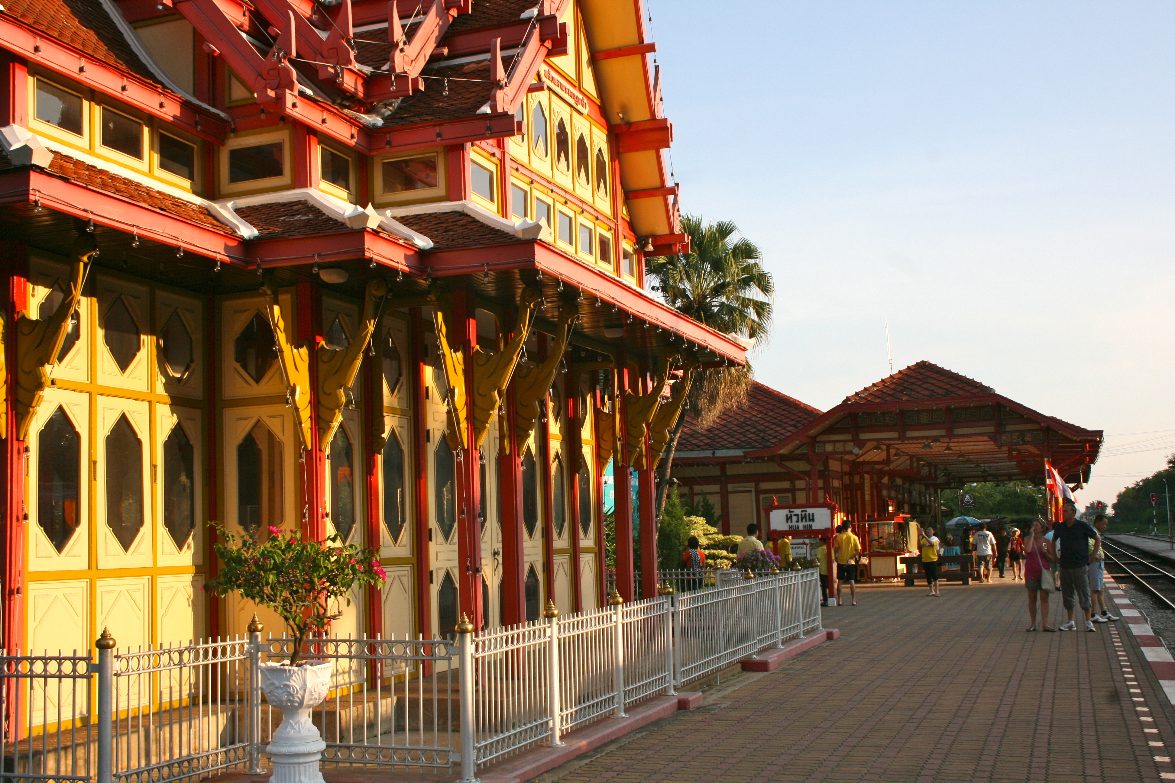 The King frequently visits Hua Hin, where he has a summer palace, this is his waiting room at Hua Hin Railway Station